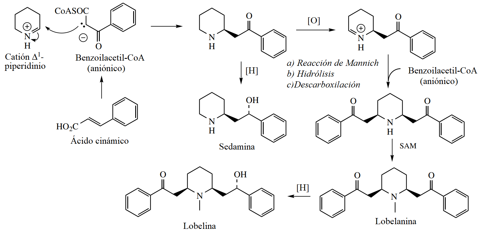 Pathway required to explain biosynthesis of lebelin and analogs, it's designed for spanish page of shikimic acid and lobelin.